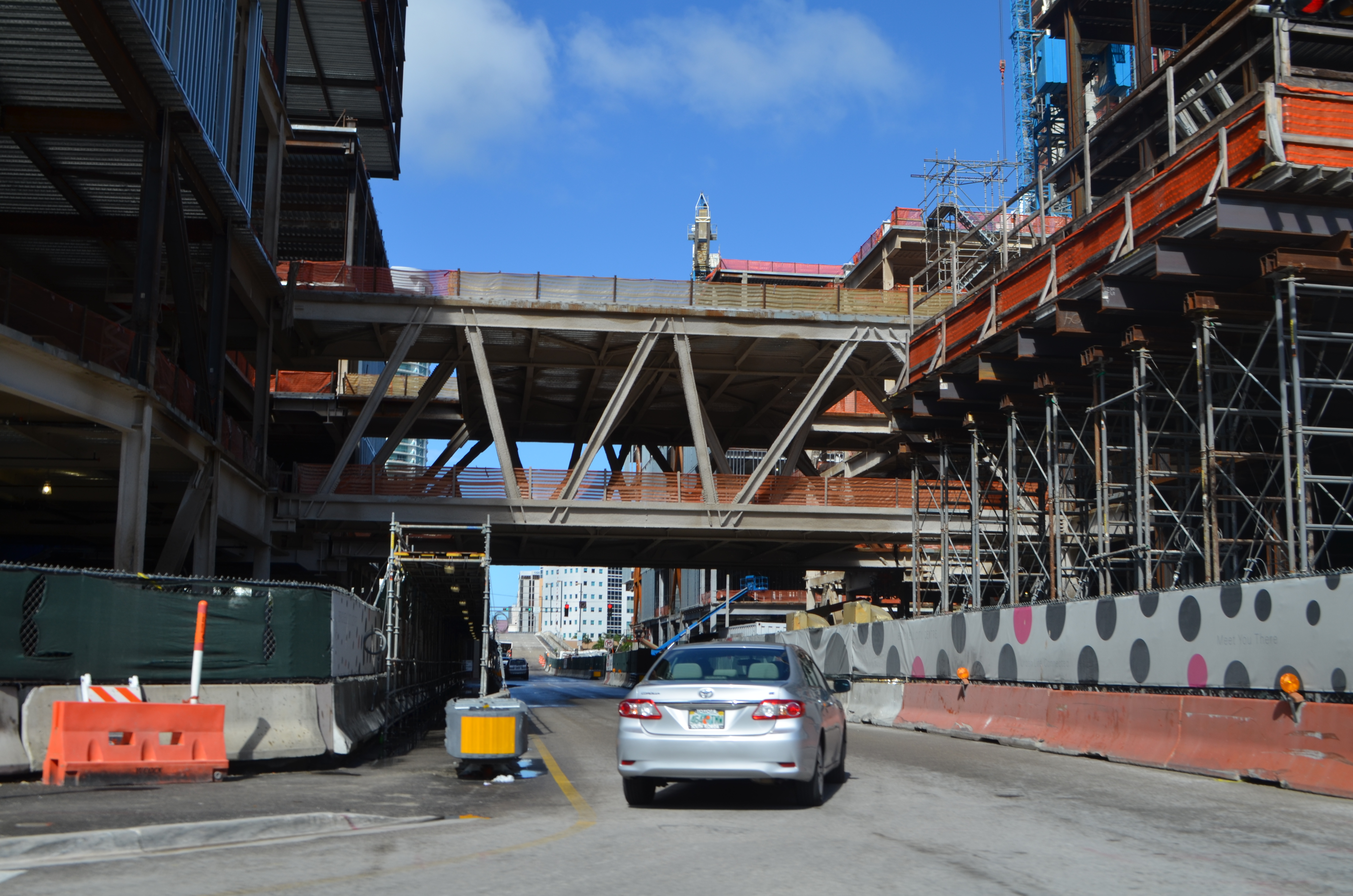 Construction of one of several connections between Brickell City Center structures which span many lots.